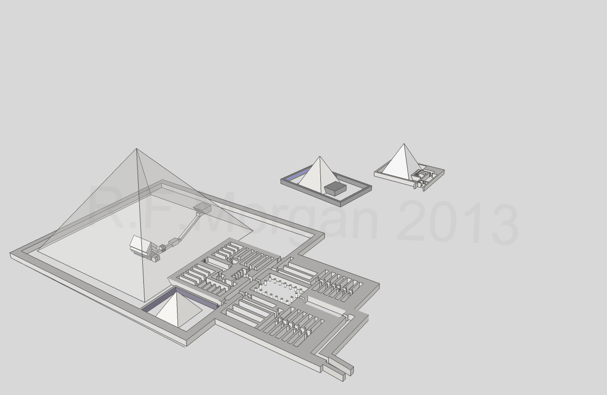 The pyramid of Teti